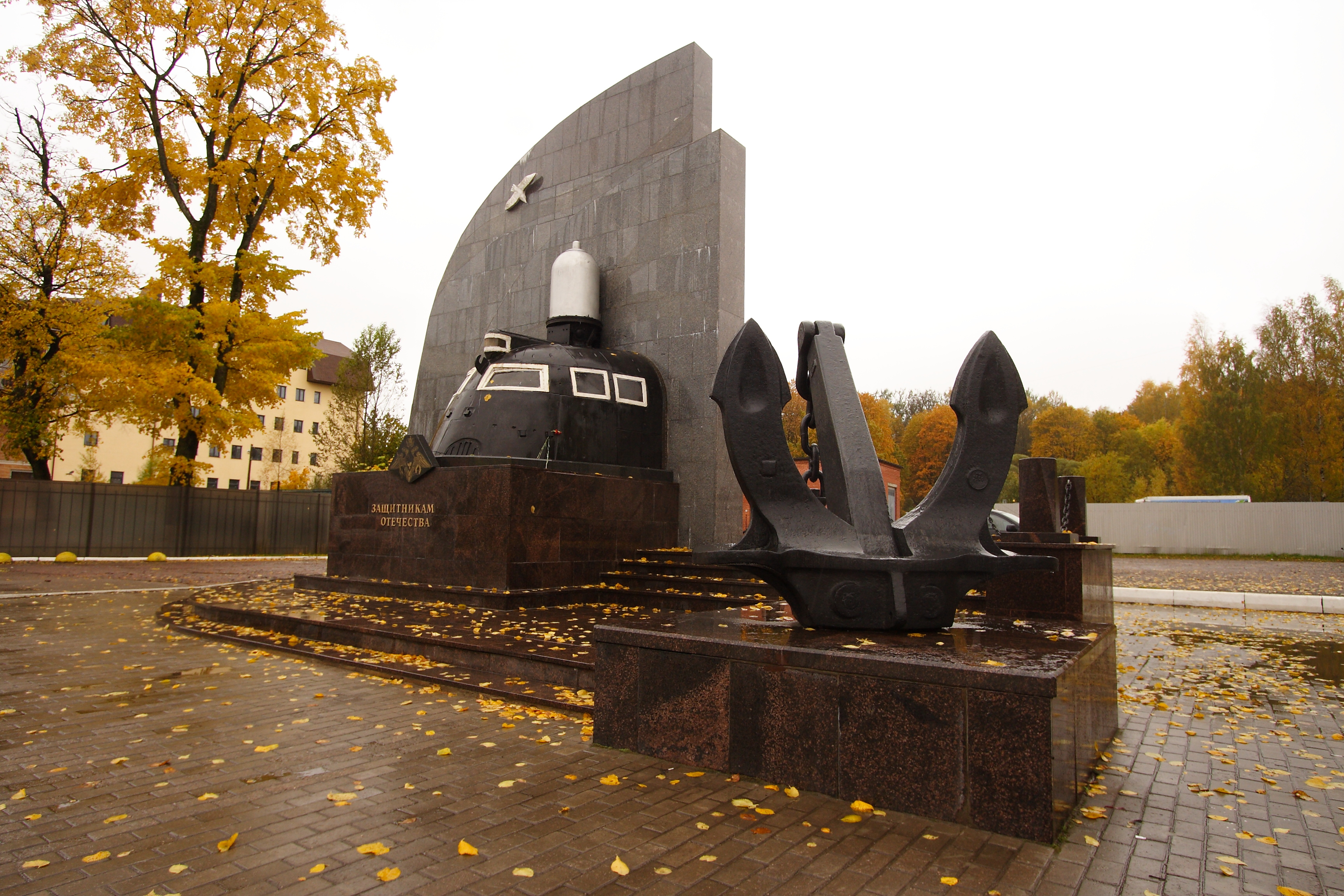 Memorial "To the crew of sunken submarines" in village Koltushi.